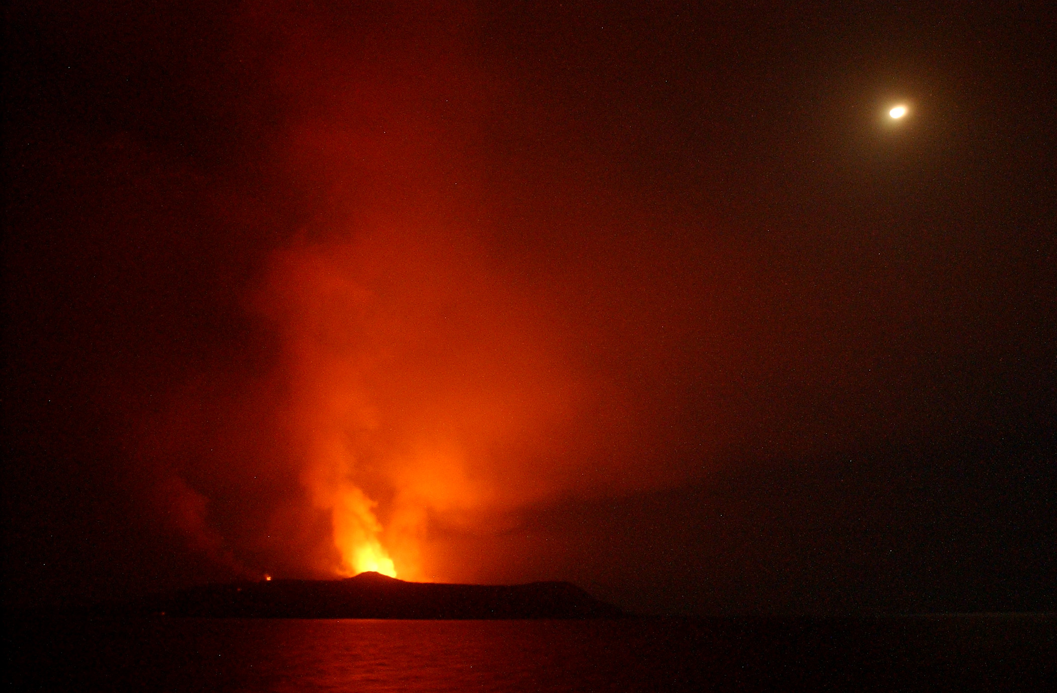 Eruption of Jabal al-Tair Island